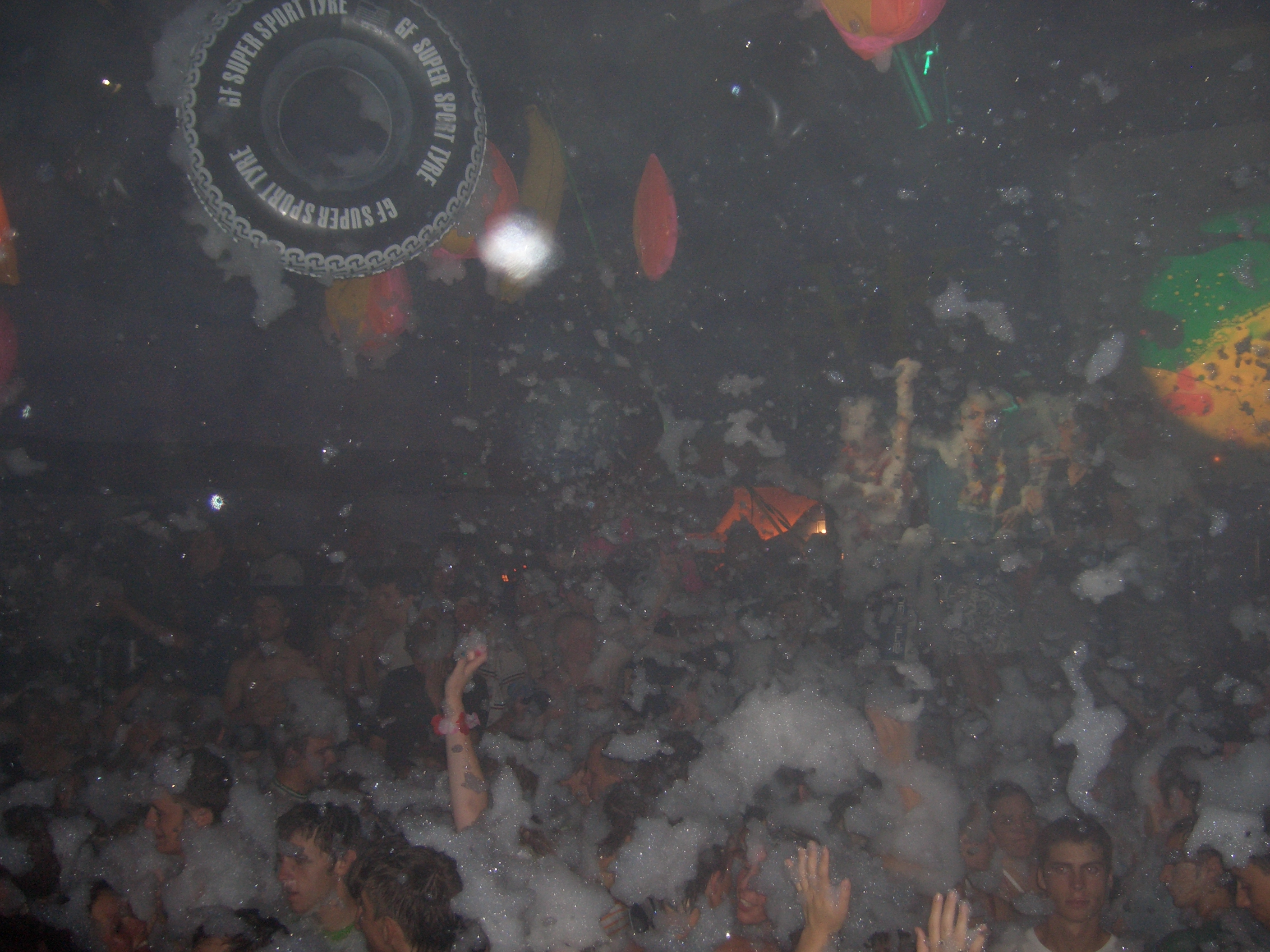 Foam Party, Time and Envy, Nights Out In Pompey